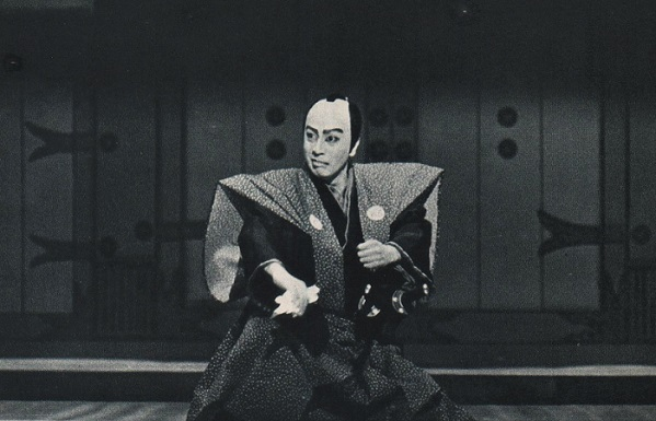 Ebizō Ichikawa IX (1909–65) as Ōboshi Yuranosuke in Kanadehon Chūshingura Act Ⅳ